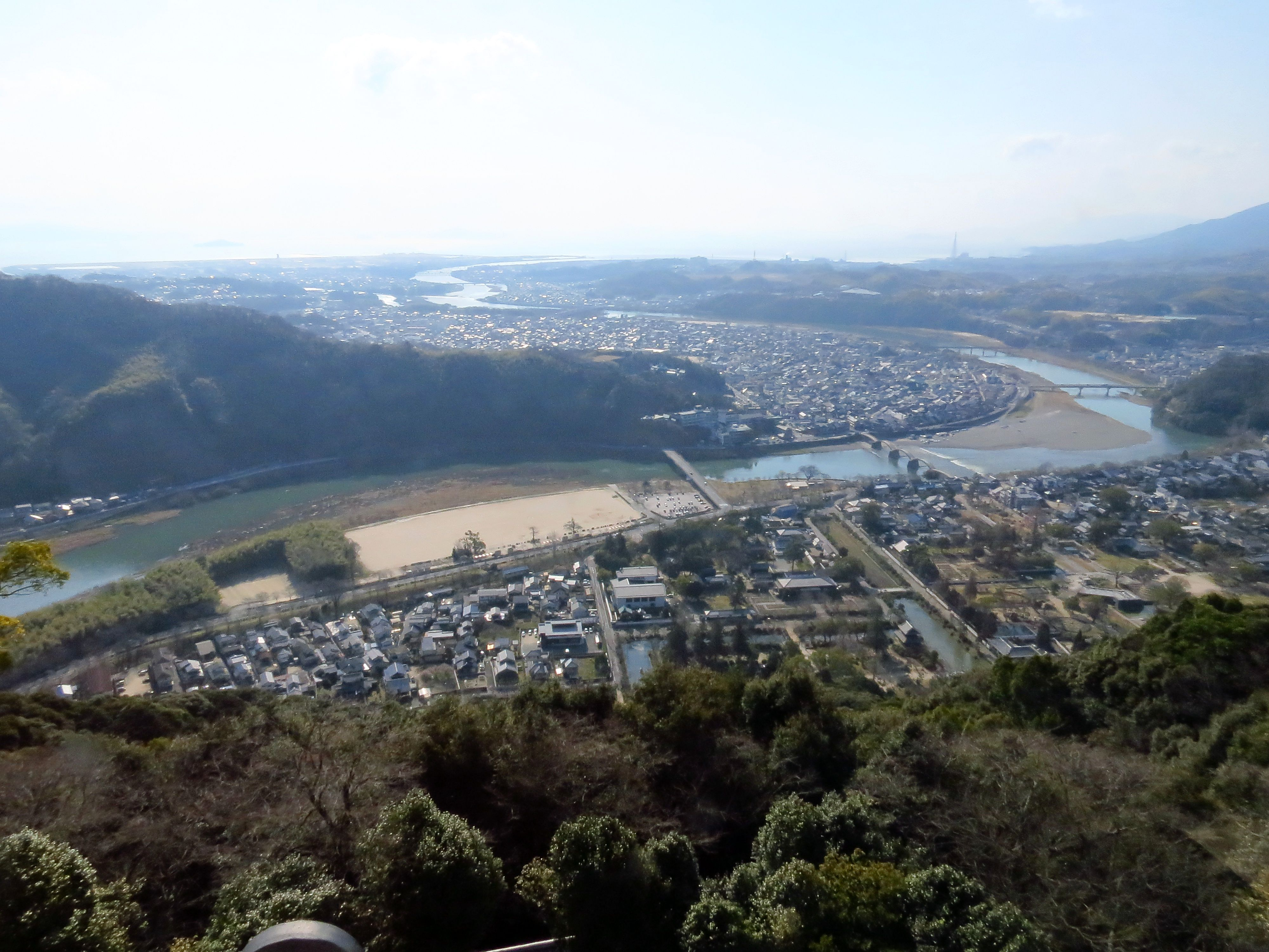 Taken from Iwakuni Castle